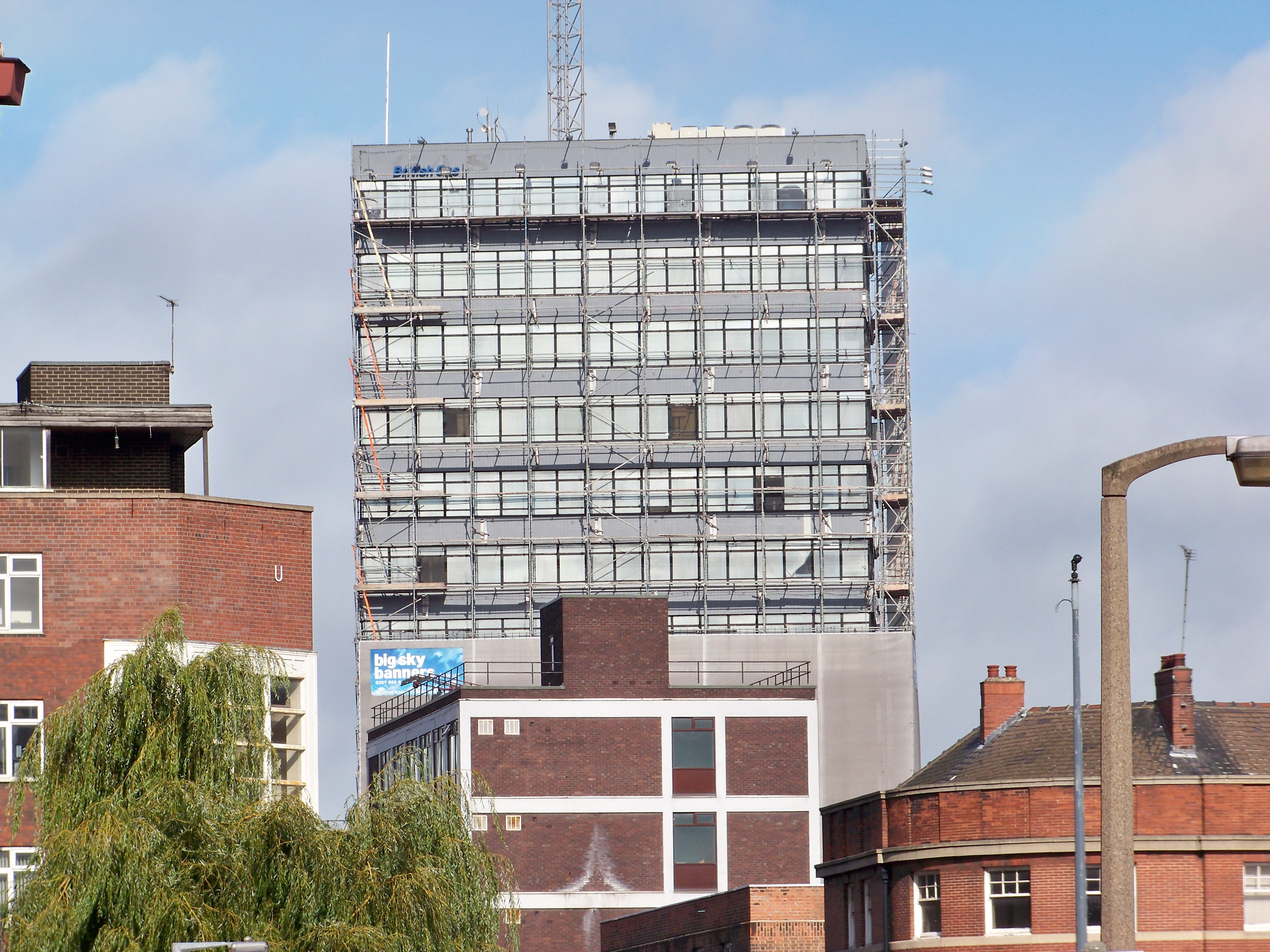 The former headquarters of the North Eastern Gas Board and later a British Gas office in Leeds. Taken on the afternoon of Saturday the 3rd October 2009.